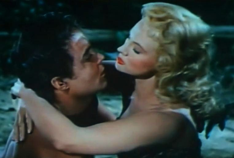 Lance Fuller & Virginia Mayo in Pearl of the South Pacific - trailer (cropped screenshot)